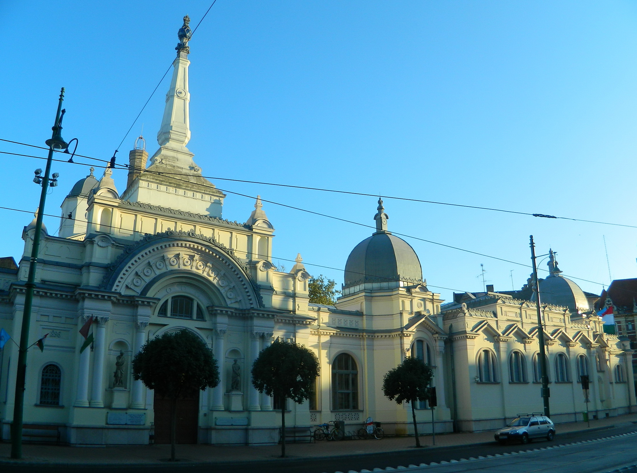 Anna bath in Szeged